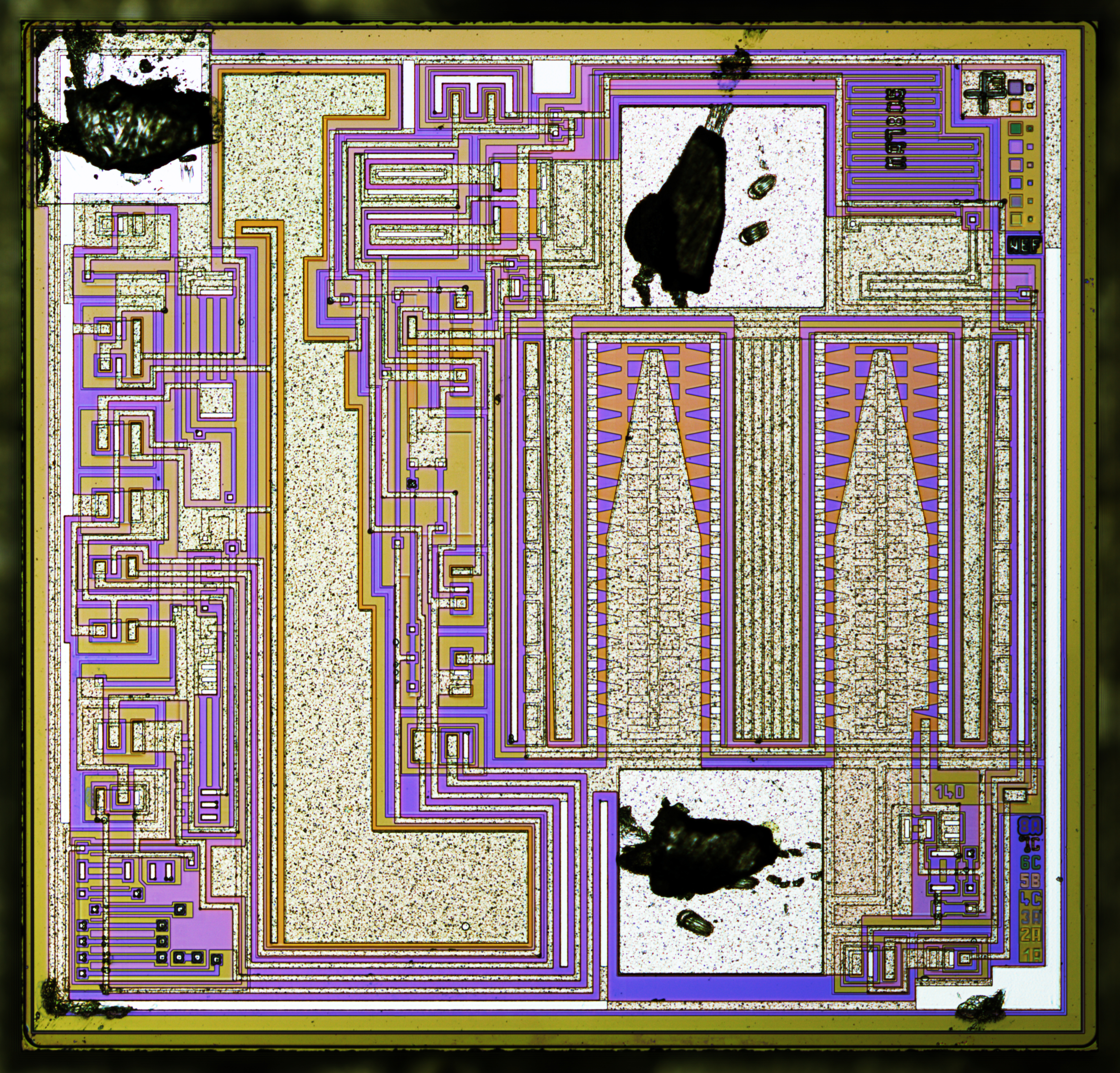 Tesla MA7805 - 5V 2A voltage regulator. Die size 2344x2243 µm.